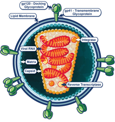 An illustrative diagram of a single, infective viral particle of HIV virus. Credit: NIAID